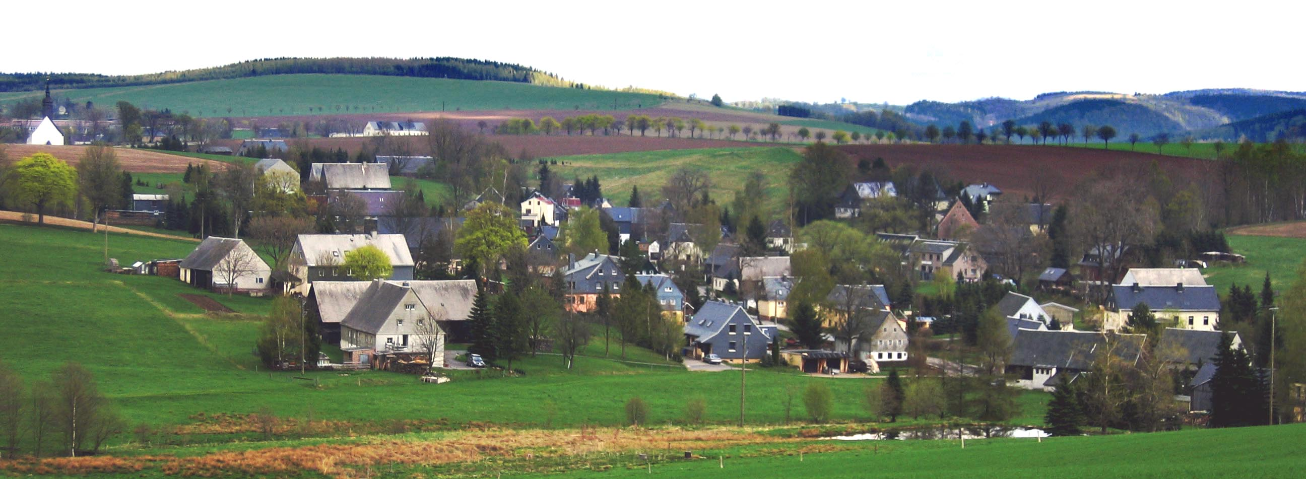 Cämmerswalde Mitteldorf. Links hinten klein die Kirche